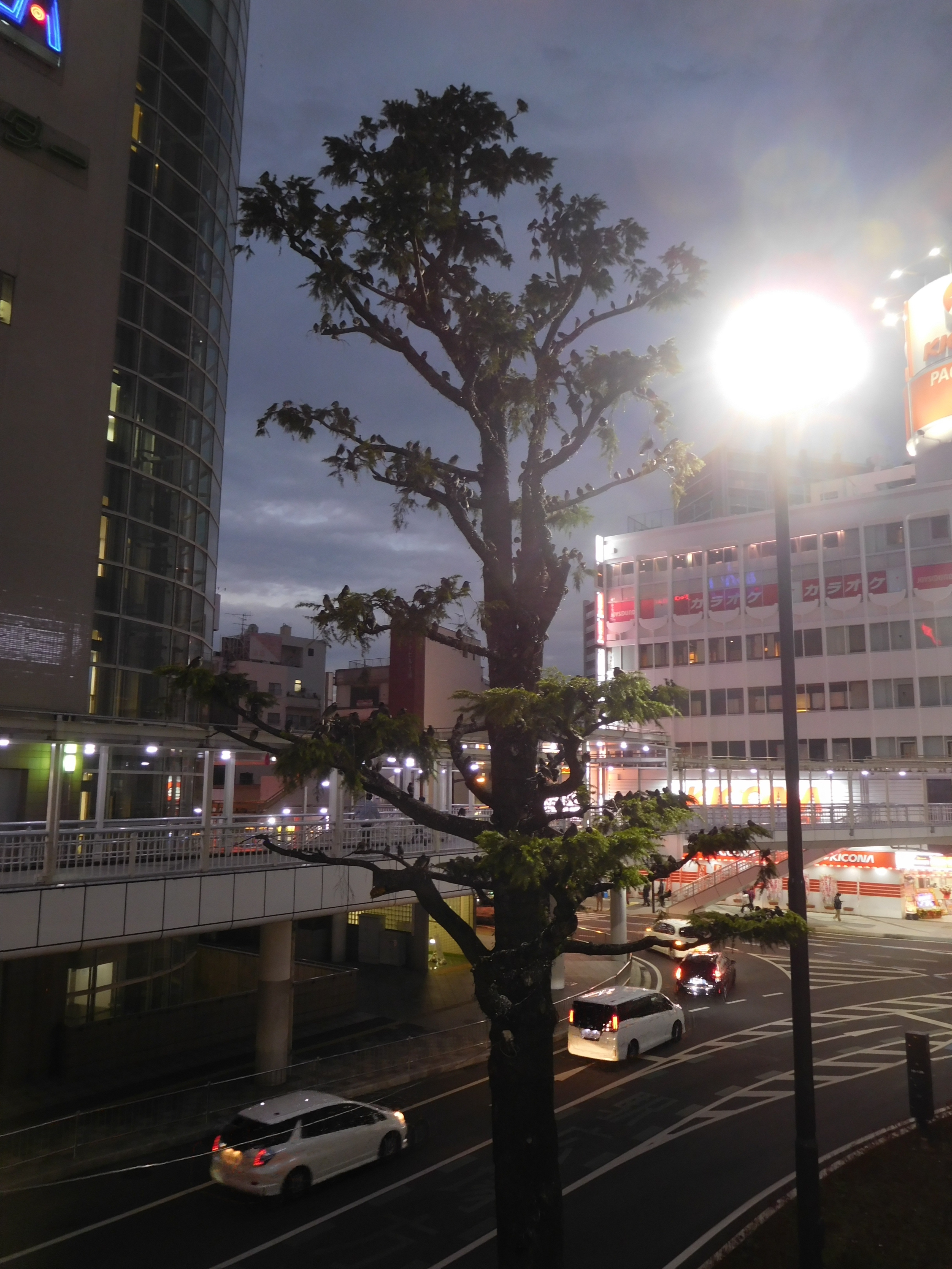 White-cheeked Starlings flock on a tree. It was taken in front of Tsuchiura station, Tsuchiura, Ibaraki, Japan.